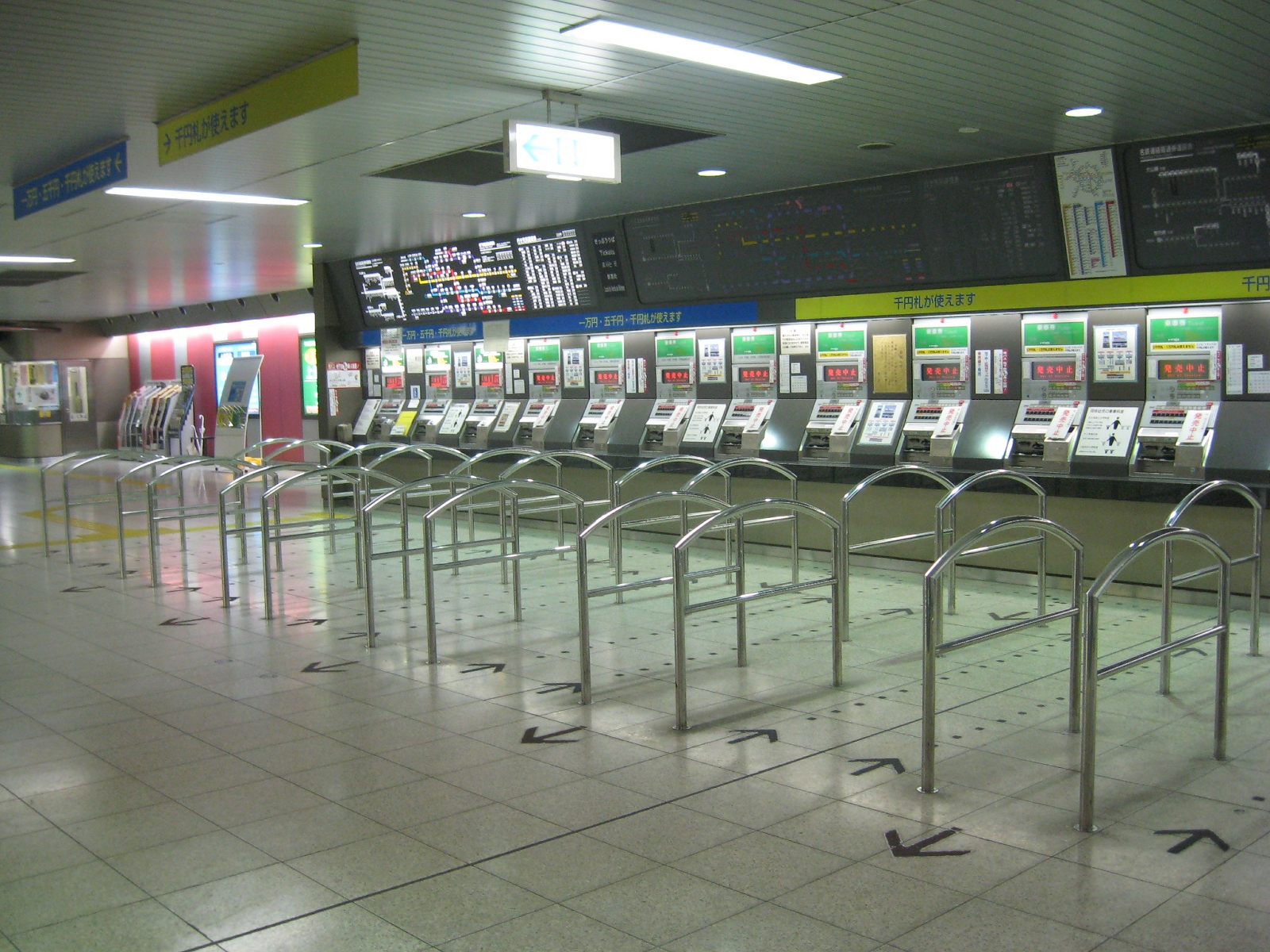 Ticket machines at Nagoya City Subway Nagoya Dome-mae Yada Station